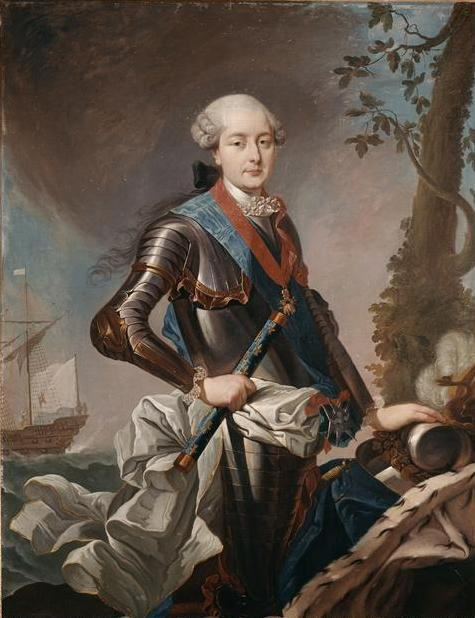 Copy after a probably original in the Musée de l'Île-de-France